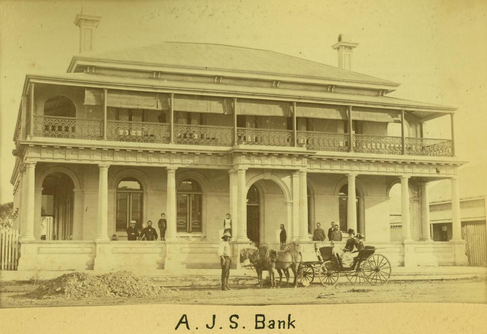 Australian Joint Stock Bank, Mackay, ca. 1882. The Australian Joint Stock Bank was constructed to the design of Francis Drummond Greville Stanley and opened for business in February 1881. The building contained the bank offices on the ground floor and accommodation for the family on the upper level.